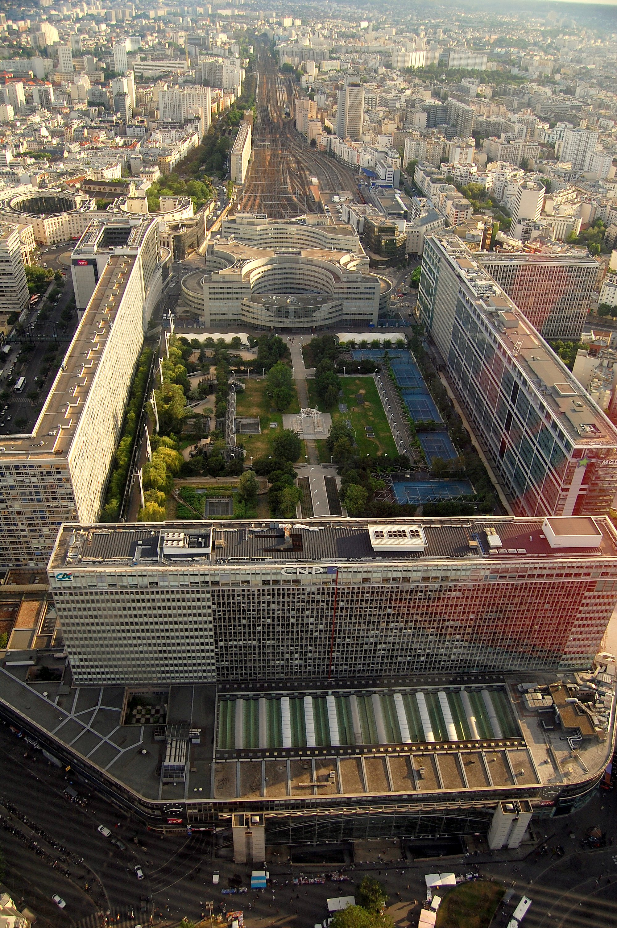 Montparnasse station and Jardin Atlantique, Paris, France view from the summit of the Montparnasse Tower